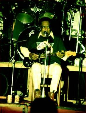 R. L. Brurnside @ Liri Blues 1992